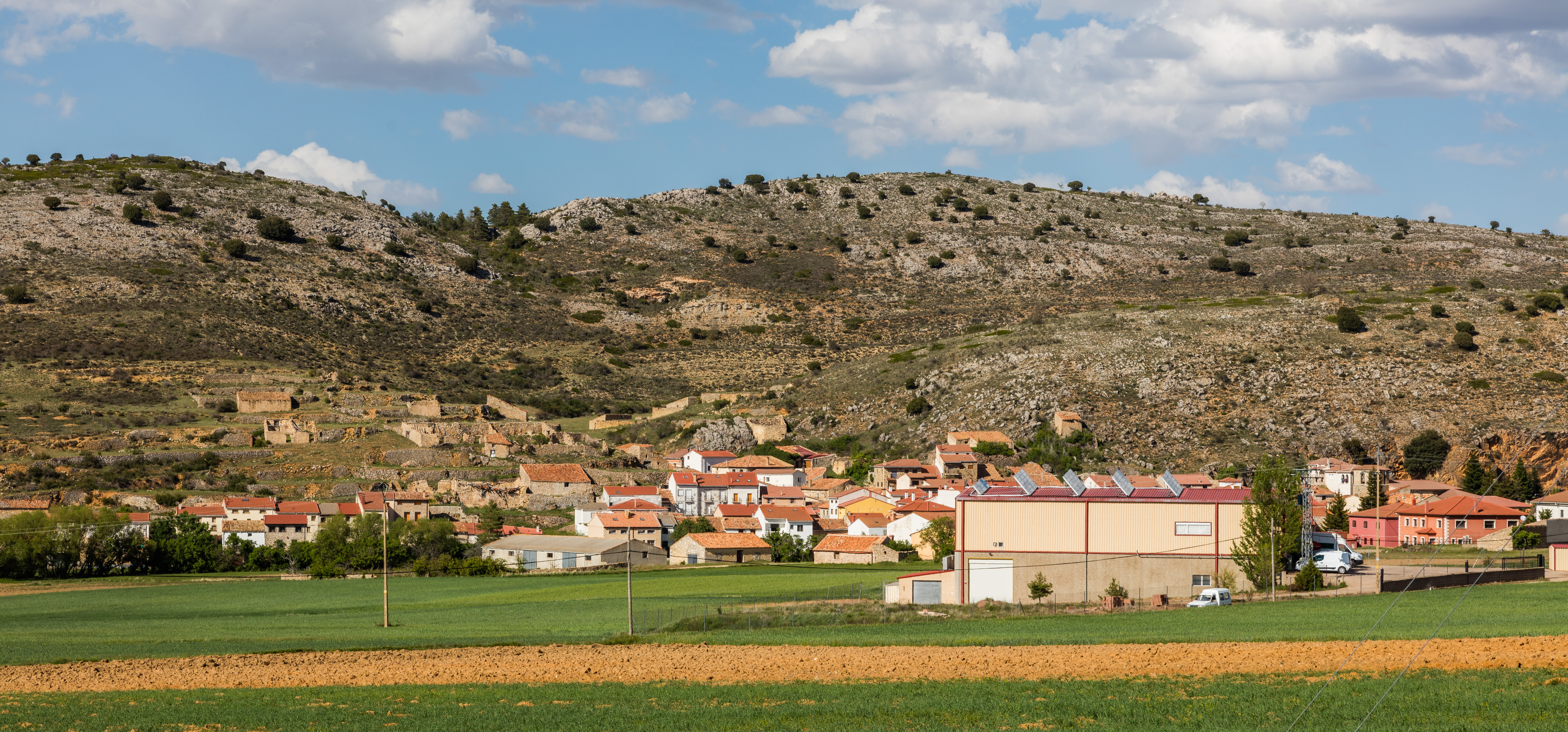 Alcoroches, Guadalajara, Spain